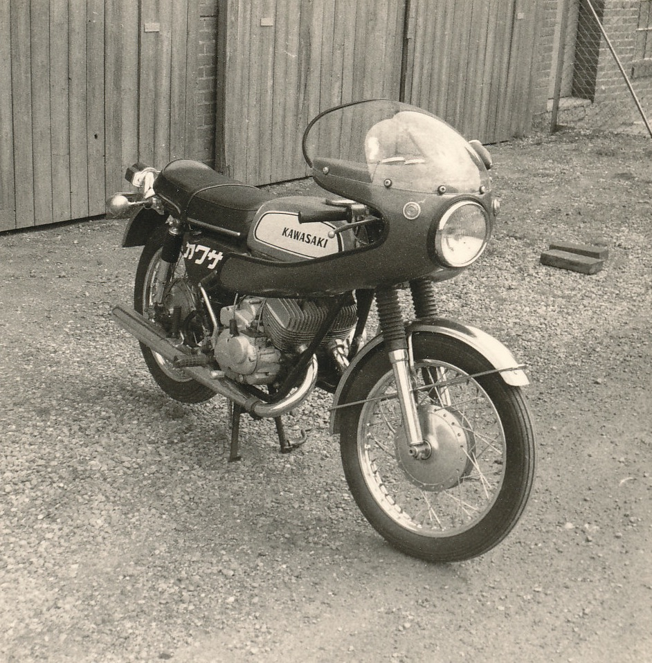 My first motor cycle